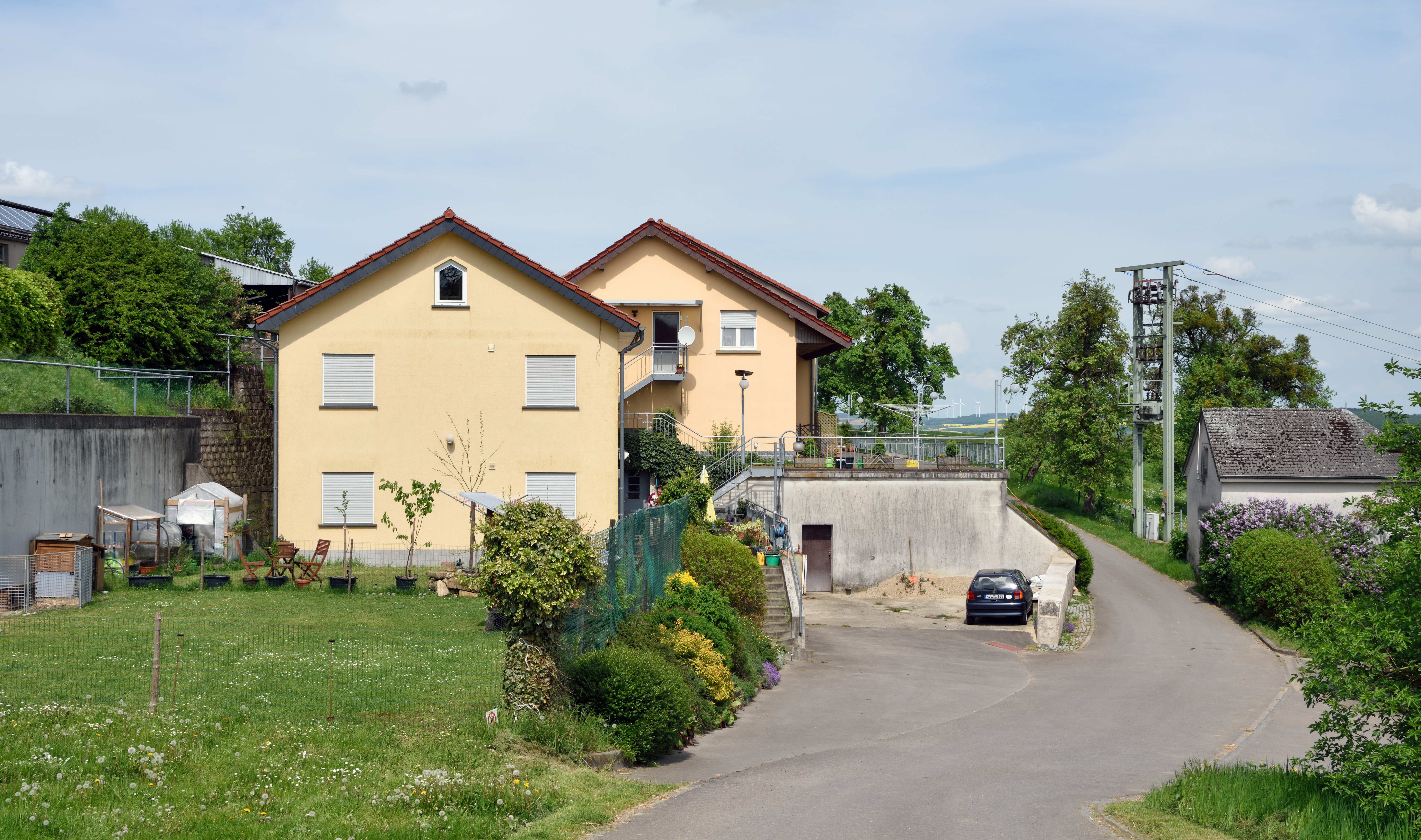 Frombourg in the commune of Rosport in Luxembourg.